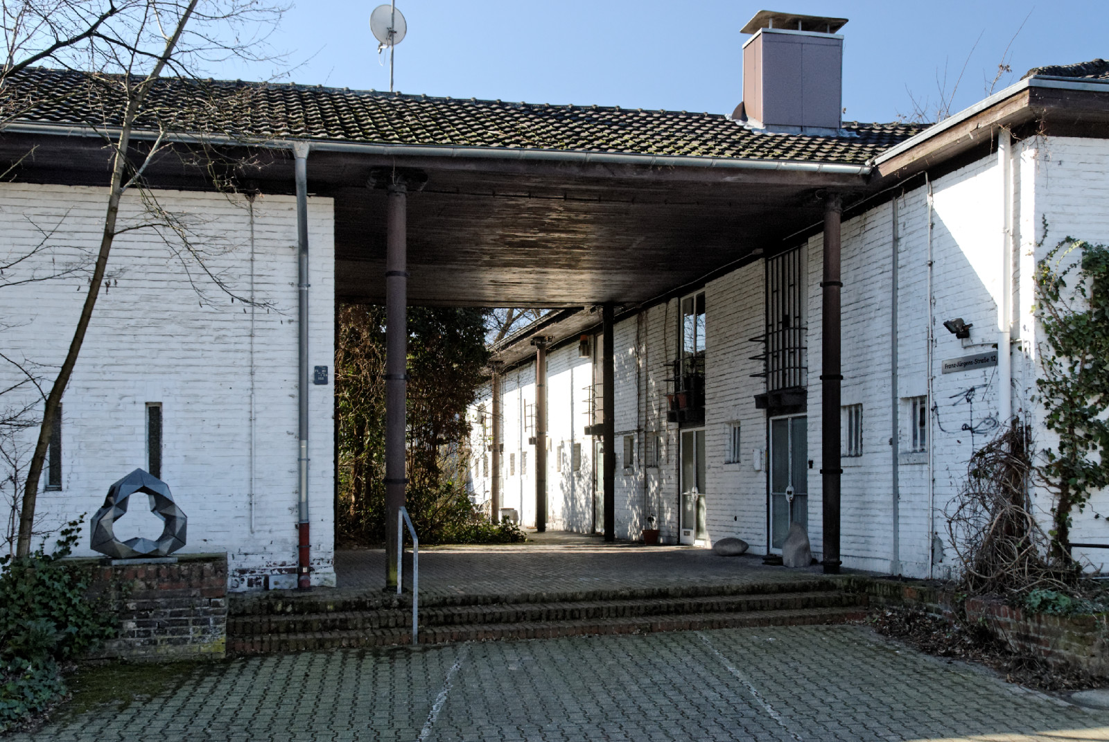 House Franz-Jürgens-Straße 12 in Düsseldorf-Golzheim, Germany